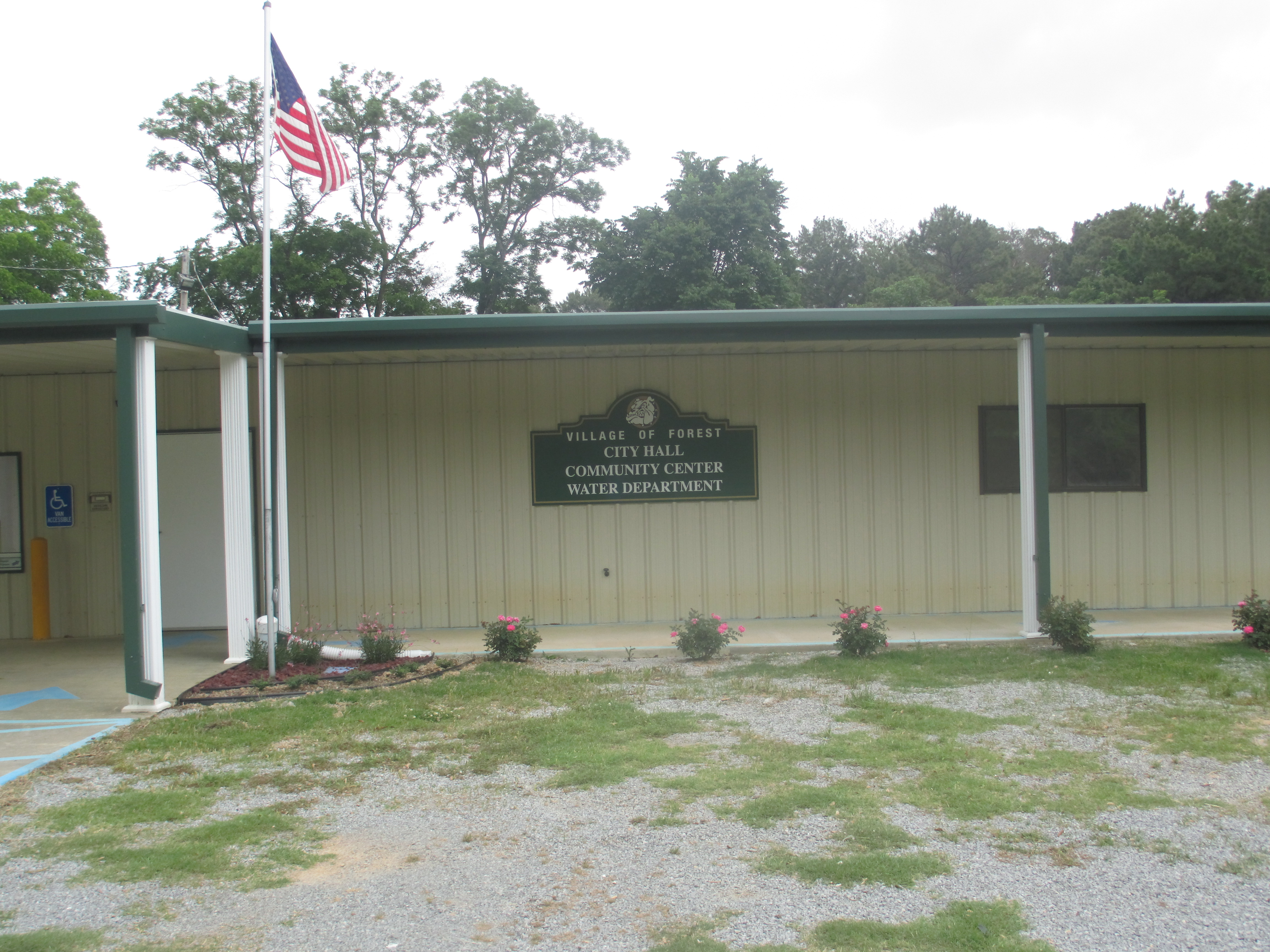 I took photo of Forest town hall in Forest, LA, with Canon camera.